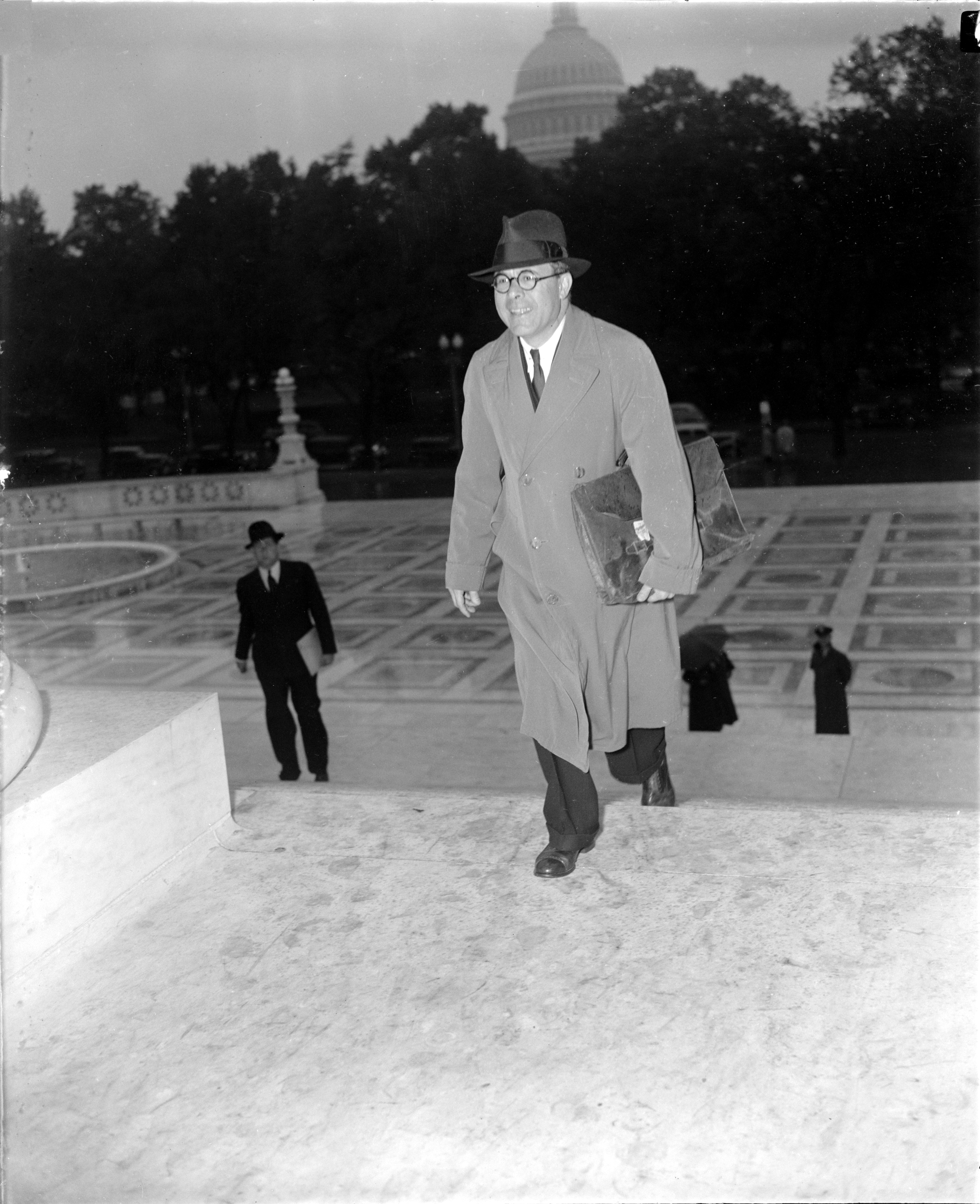 Albert Levitt arrives to file a petition challenging Hugo Black's eligibility to serve on the Supreme Court